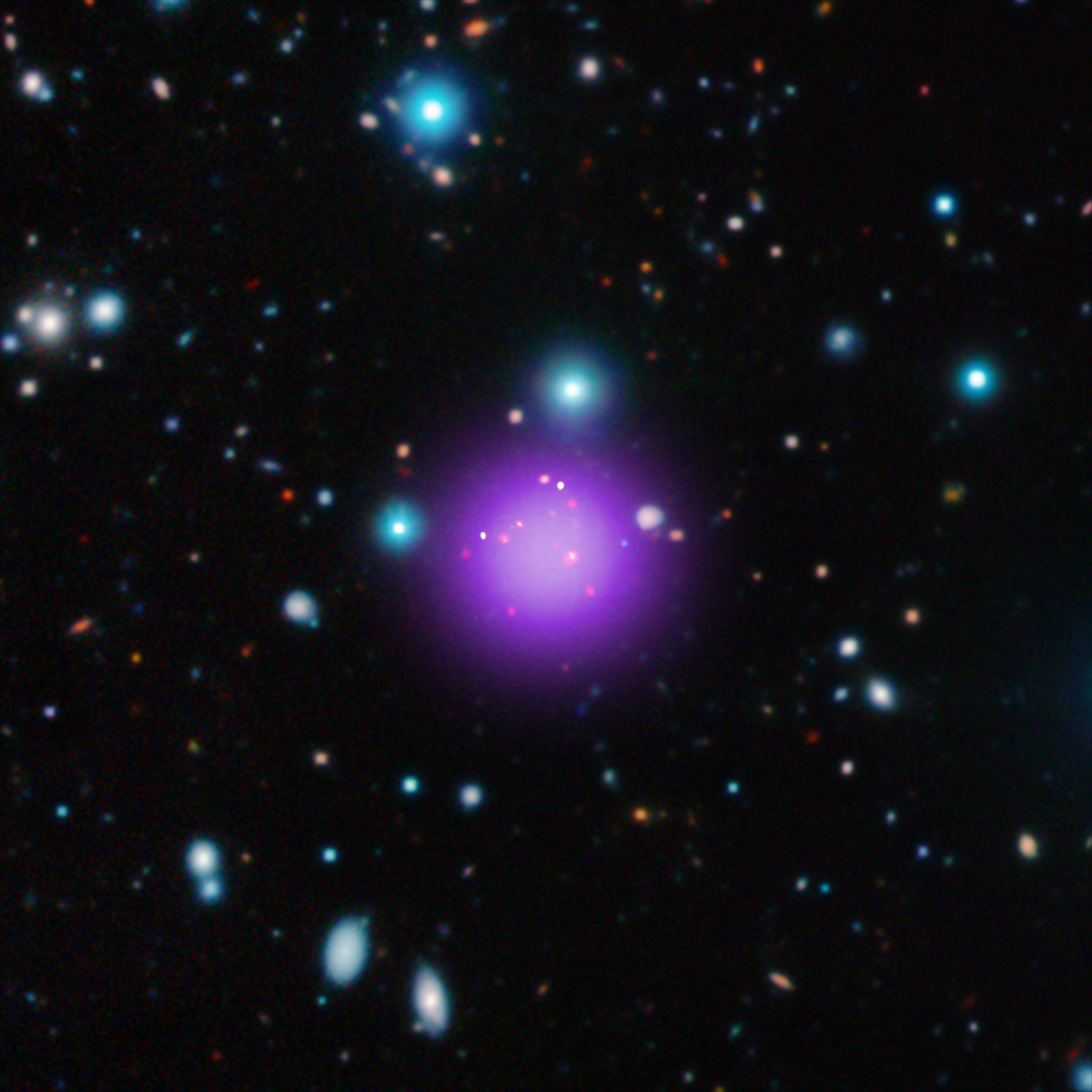 The galaxy cluster CL J1001+0220 is the most distant galaxy cluster ever discovered and may have been caught right after birth, a brief, but important stage of cluster evolution never seen before. This composite shows CL J1001+0220 in X-rays from Chandra (purple), infrared data from the UltraVISTA telescope (red, green, and blue), and radio waves from ALMA (green). The discovery of this object pushes back the formation time of galaxy clusters - the largest structures in the Universe held together by gravity - by about 700 million years.